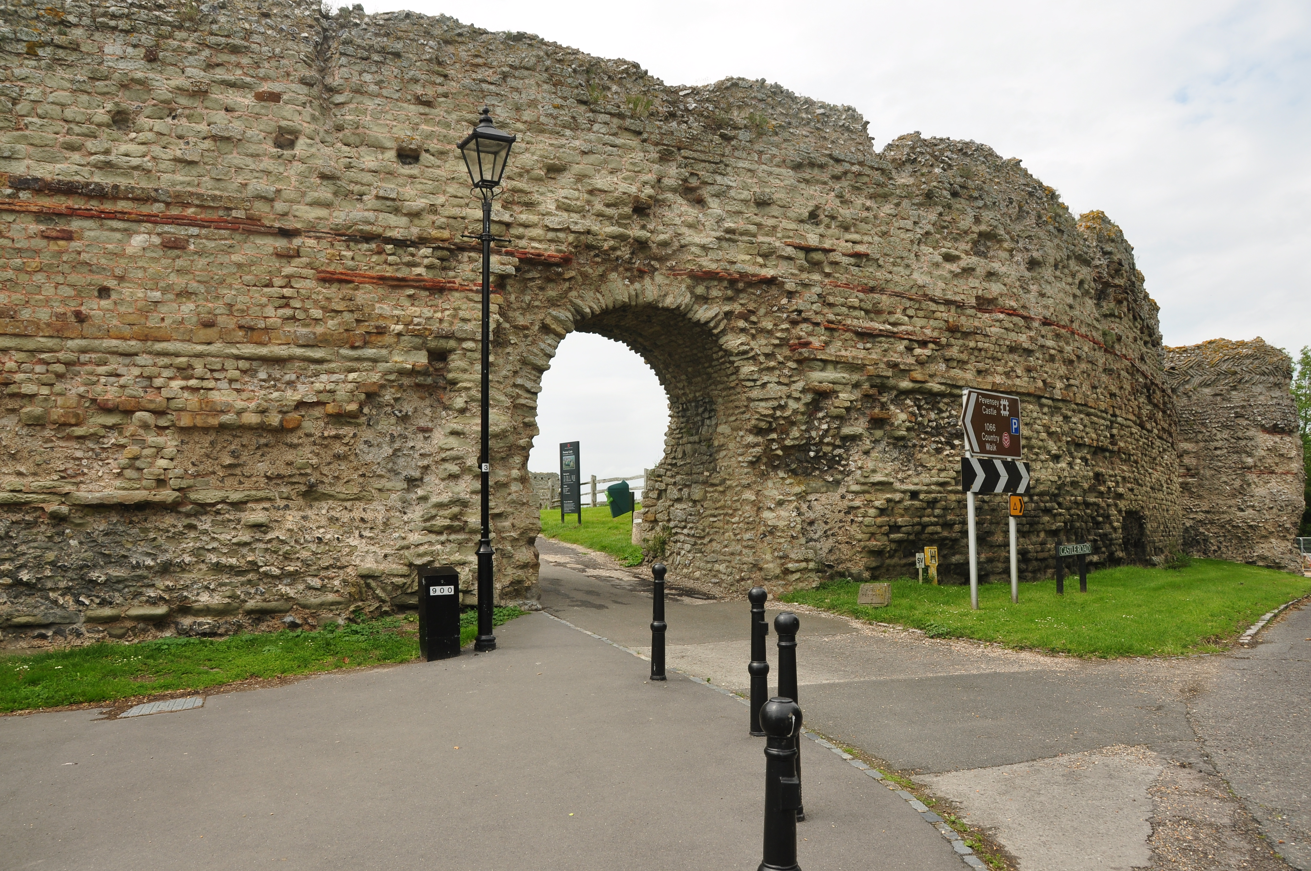 Pevensey Castle